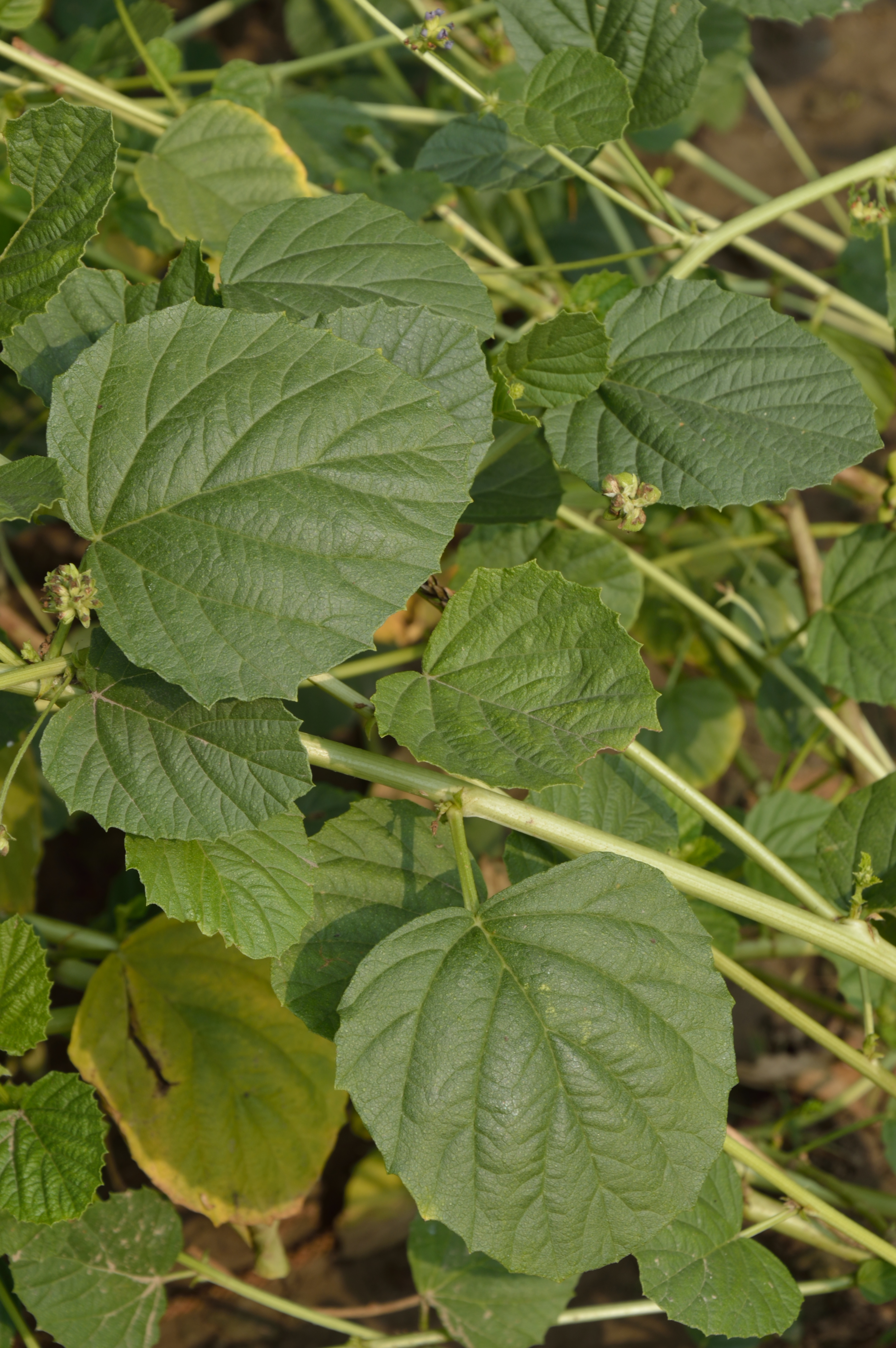 Photographs at The Agri-Horticultural Society of India, Alipore in Kolkata.